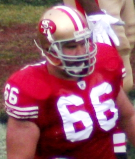 San Francisco 49ers center Eric Heitmann in action in the game against the St. Louis Rams on November 18, 2007.